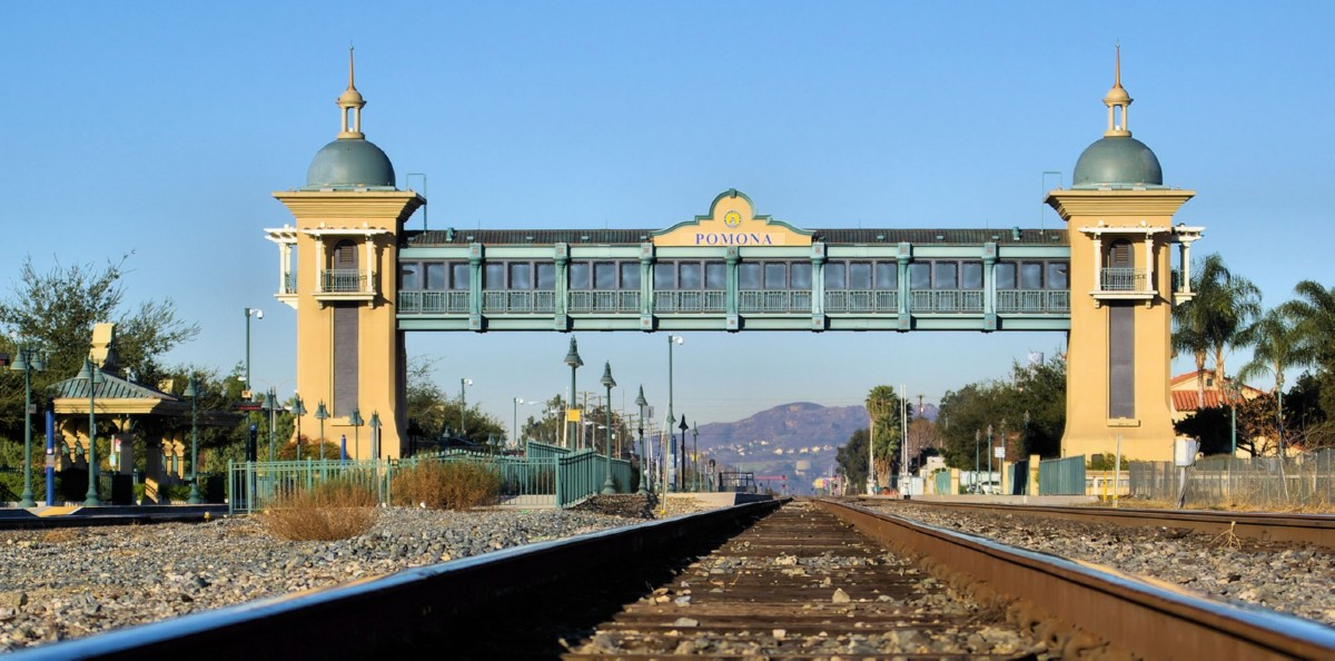 My Train Set Pomona, California